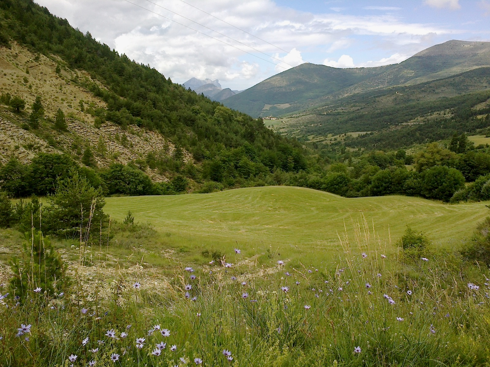 Drome Col Des Roustans 05072014